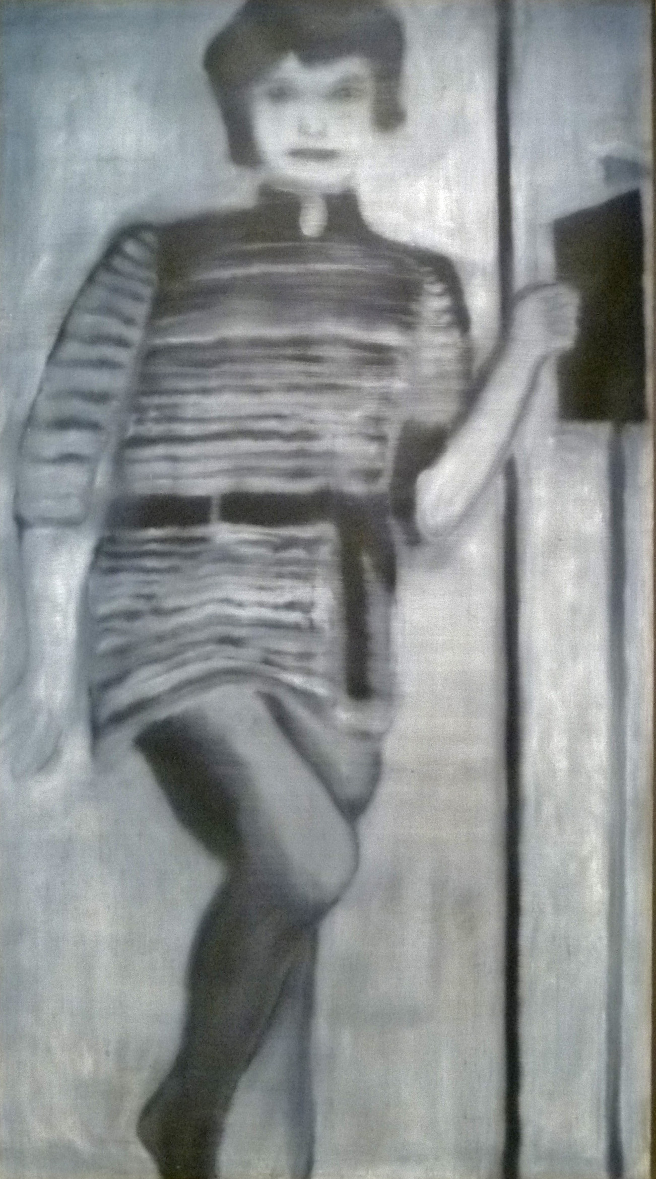 "Mary Bell", oil on canvas (200 x 100 cm) post-modern painting by the Belgian artist Xavier Tricot